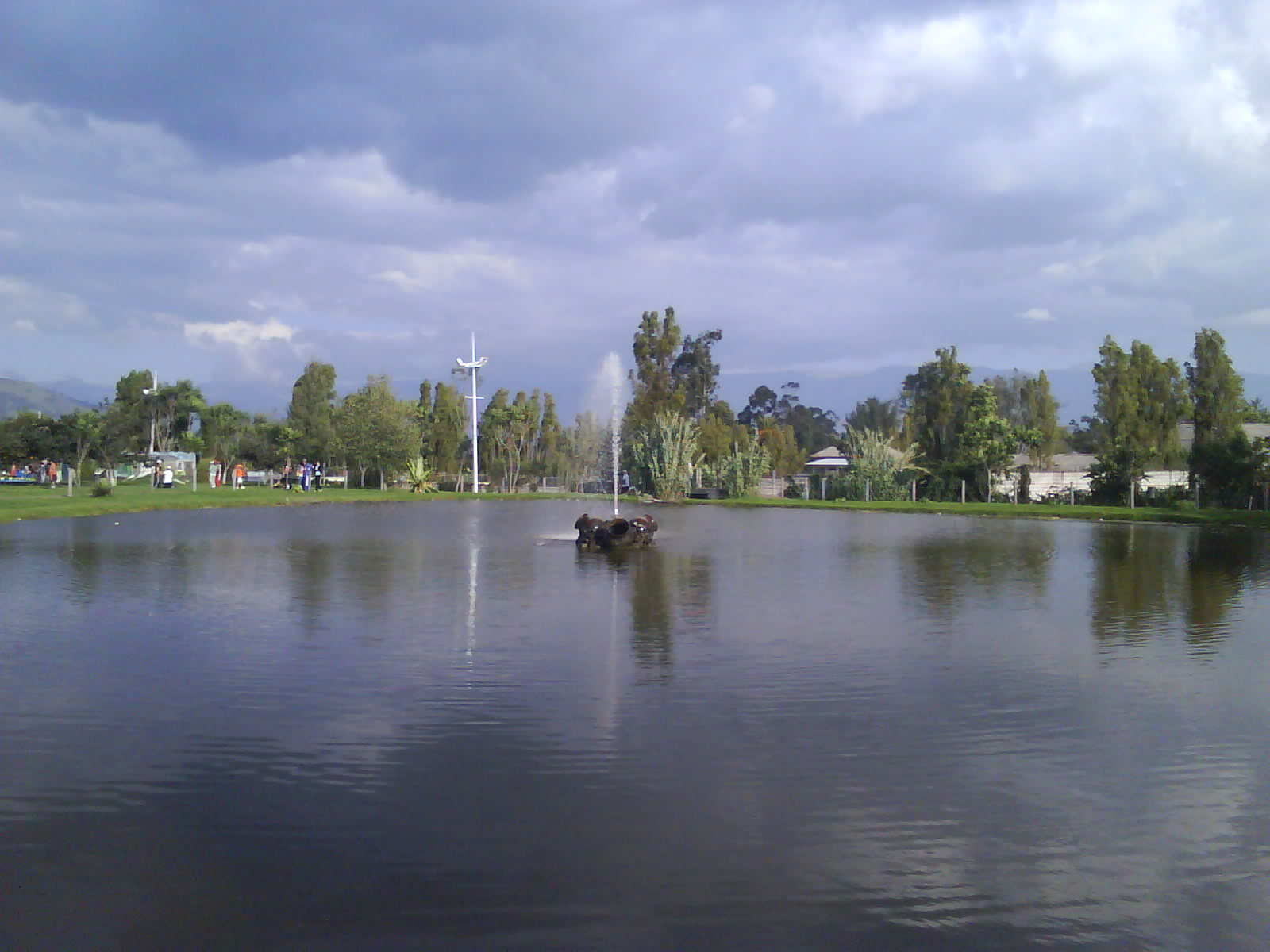 conocoto la zona residencil de la clase alta y media-alta de la ciudad de Quito y el valle de los chillos